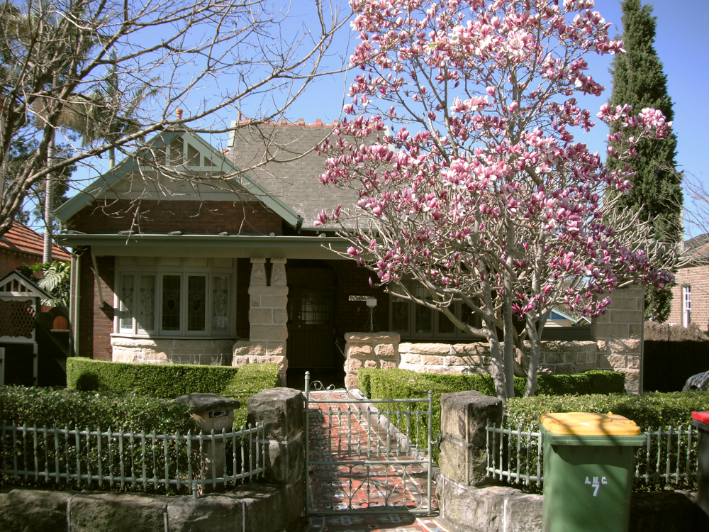 Example of Arts and Crafts style influence on Federation Architecture -faceted bay window and stone base